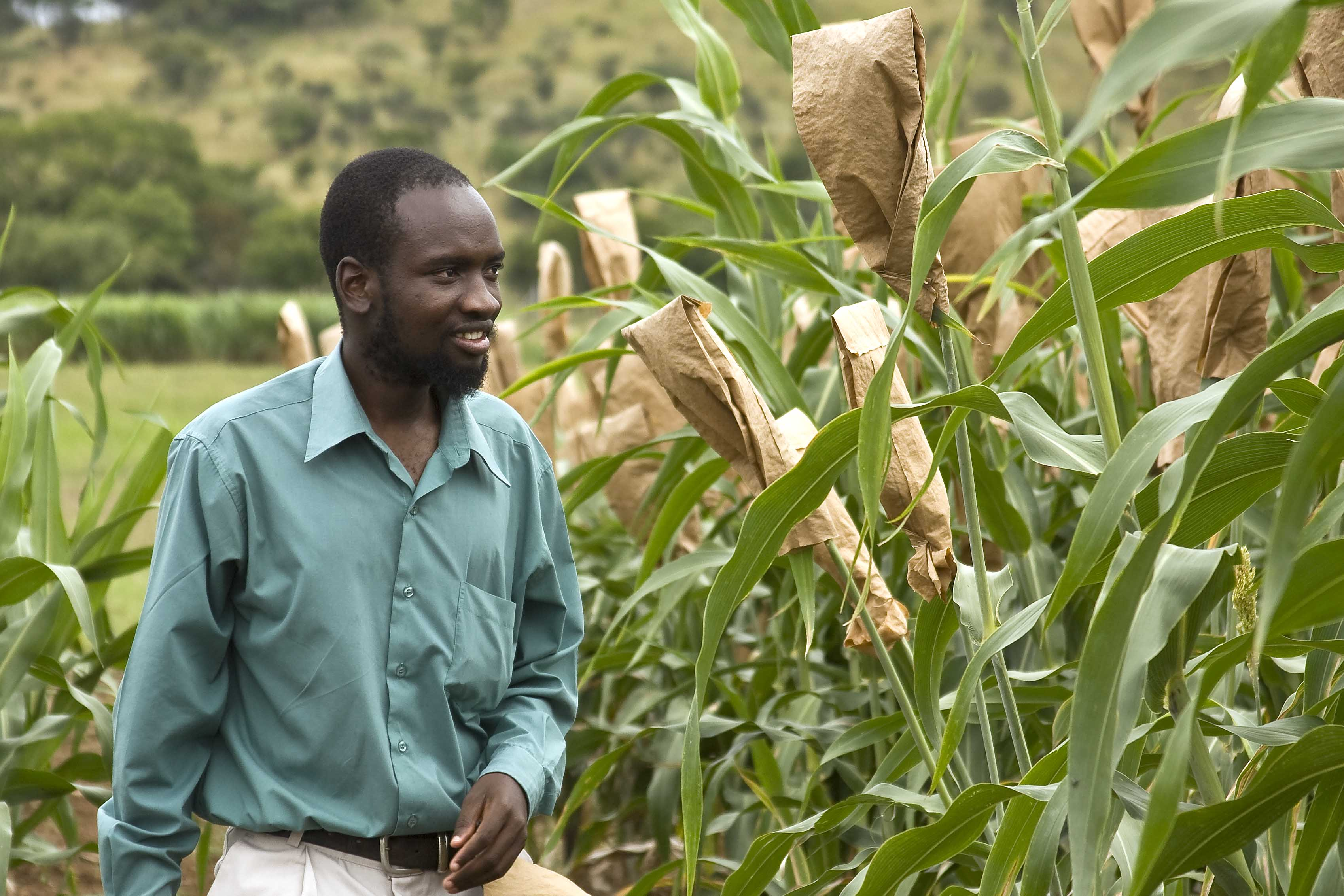 Munyaradzi Mativarira, sorghum breeder at Crops Research Institute, Zimbabwe, inspects his sweet sorghum trials at ICRISAT-Bulawayo. Dual-purpose sweet sorghum varieties can make a significant contribution toboth farmers and their livestock.